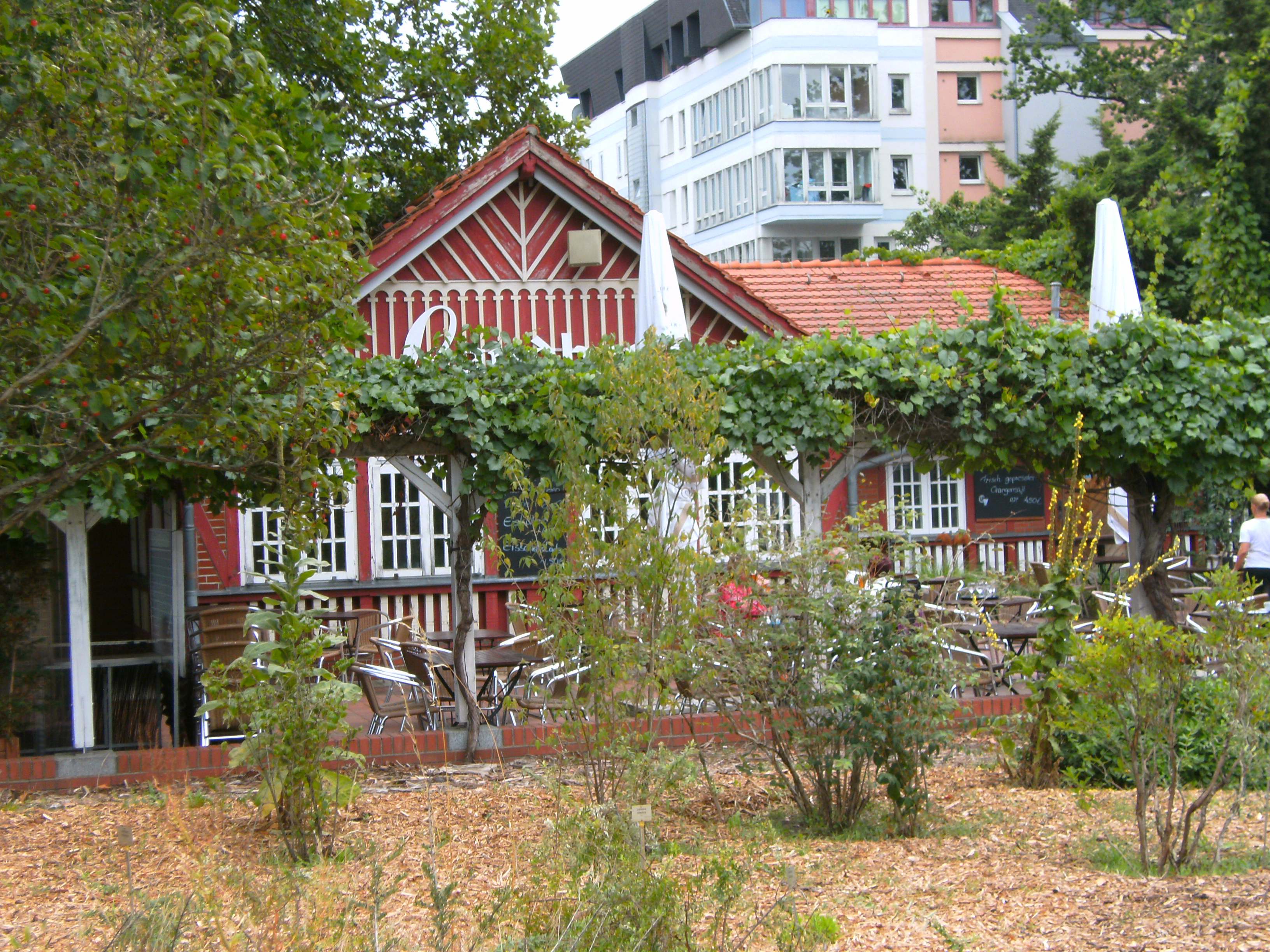 Berlin, Germany, Botanischer Garten: Restaurant in Botanischer Garten, Berlin-Dahlem.